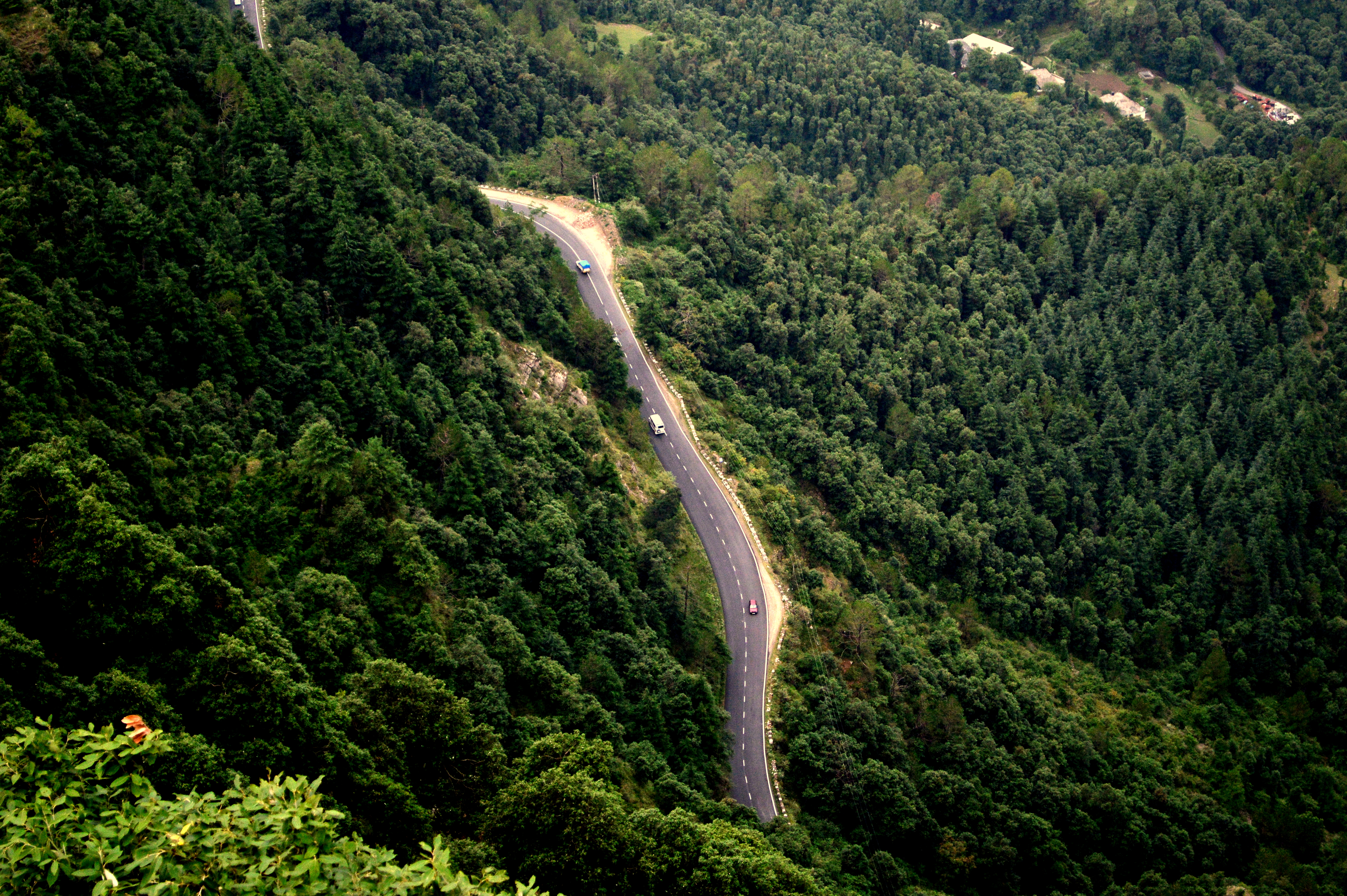 Road network NH-22 Himachal Pradesh India June 2014